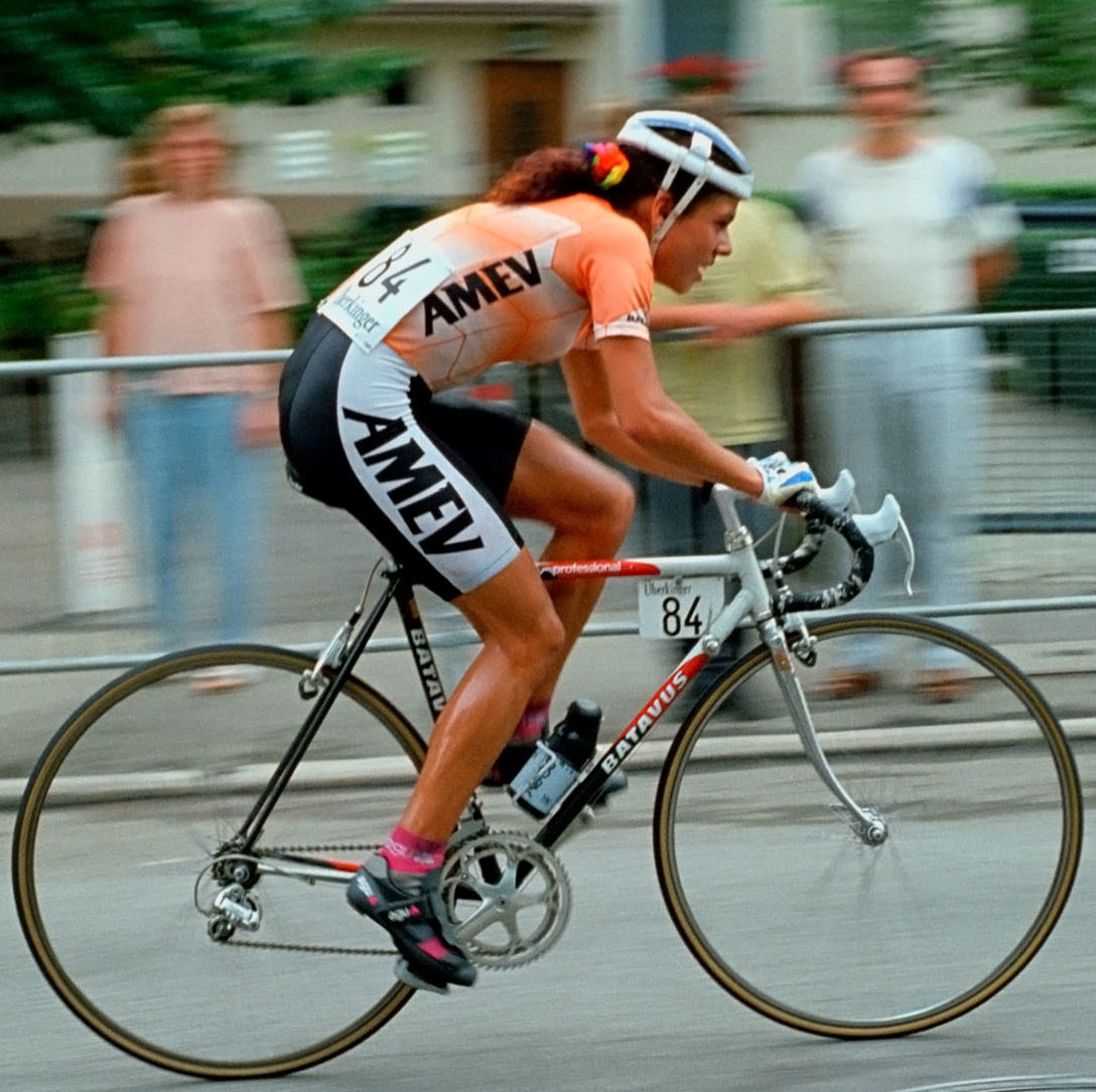 Leontien van Moorsel heads for a solo victory by almost 2 minutes in Stuttgart at the 1991 UCI Road World Championships. The Batavus frame and Campagnolo group set - with Delta brakes - were typical of the equipment used by the top riders in 1991. Scanned from a 35mm Agfa Ultra 50 negative - not the best for sports action shots!